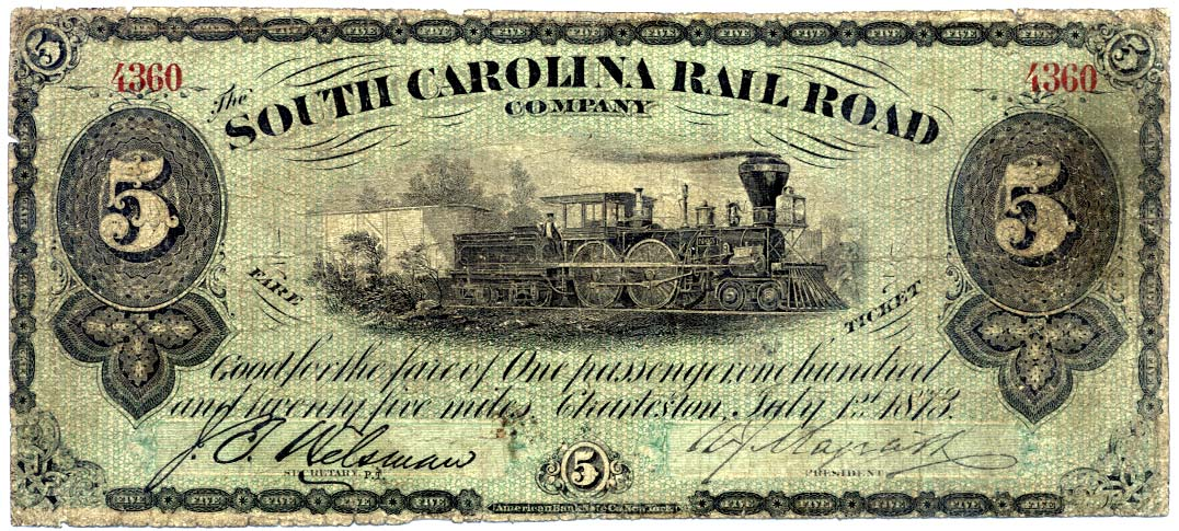 South Carolina Railroad Fare Ticket, Denomination "5", good for 125 miles of travel on the line. In practice widely accepted as a five dollar note. Notes in circulation and not redeemed as travel were in effect an interest free loan to the railroad. SCRR / American Bank Note Company, 1873.